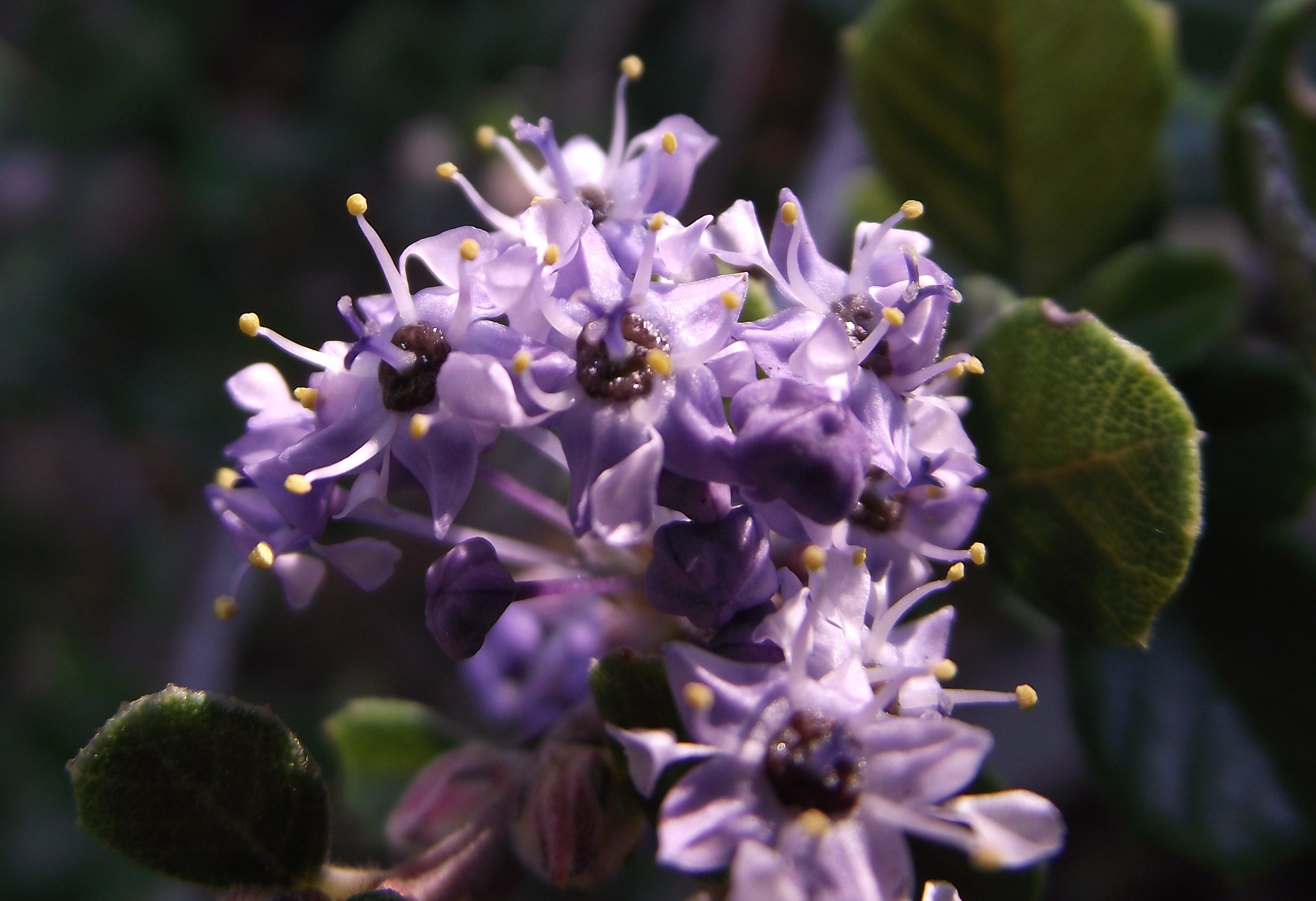 Ceanothus maritimus in the UC Botanical Garden, Berkeley, California, USA. Identified by sign.